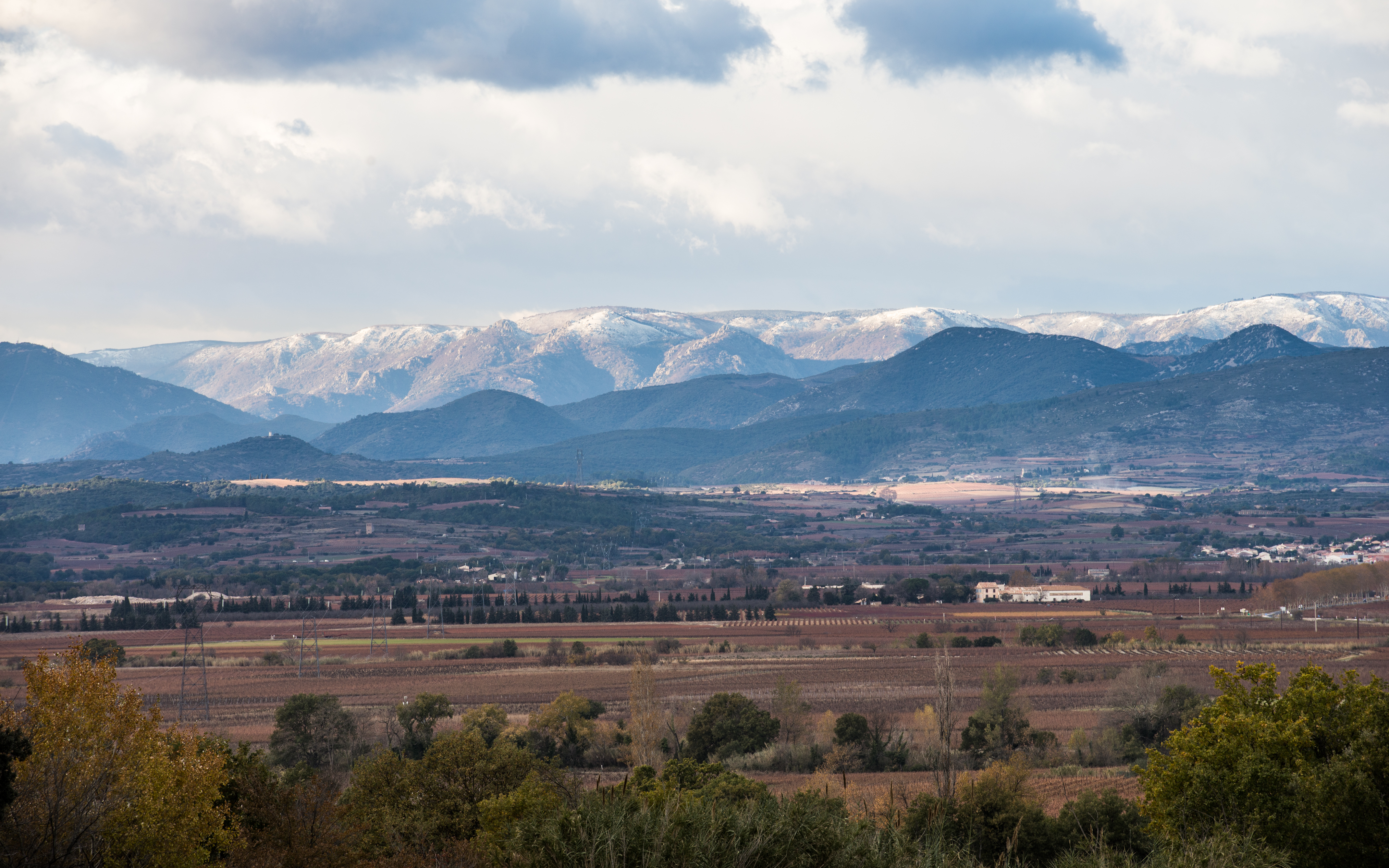 The "Montagne Noire" (Black Mountain) and a part of the commune of Thézan-lès-Béziers from the Southeast in the commune of Corneilhan, Hérault, France.